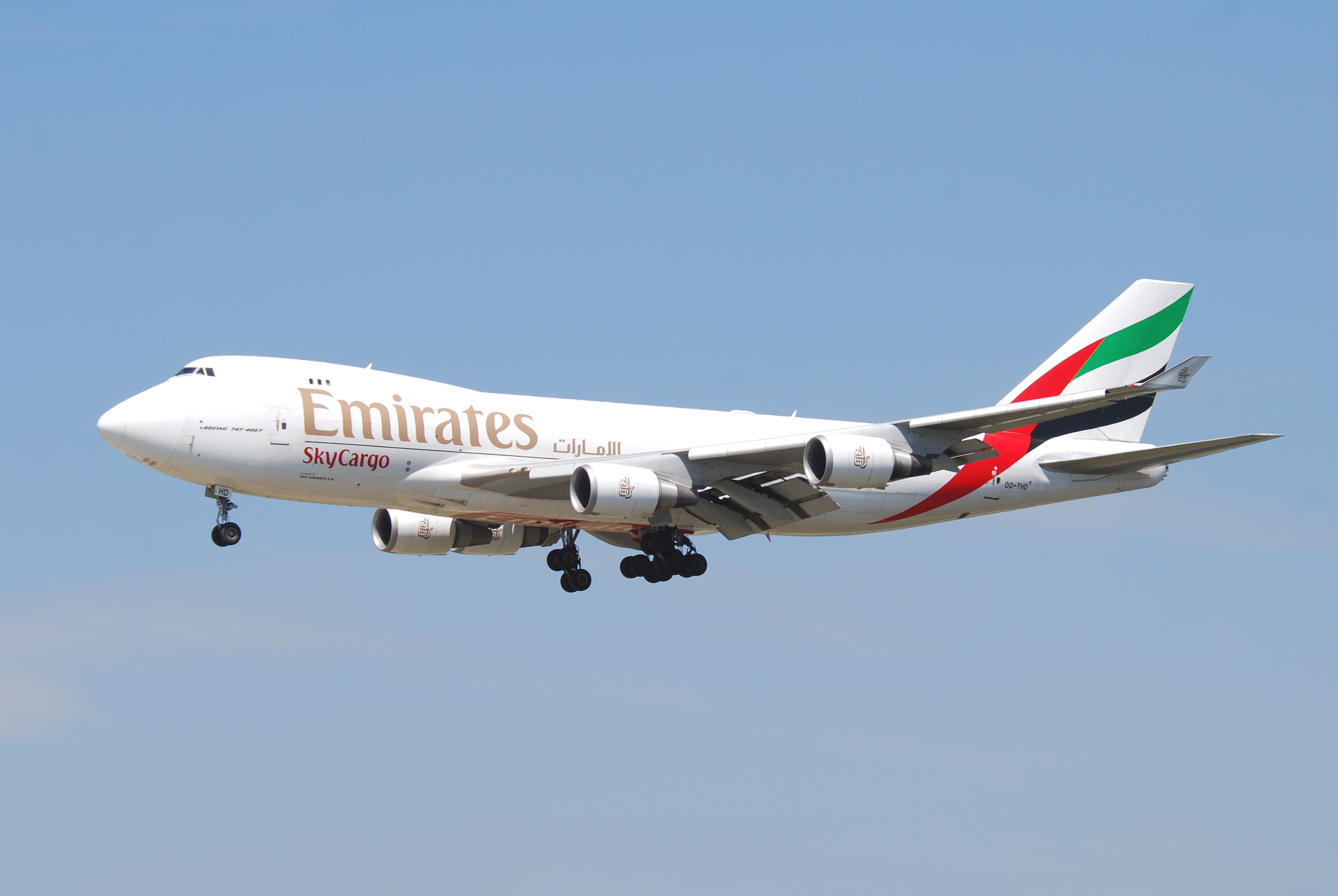 Emirates SkyCargo Boeing 747-400ER (F); OO-THD@FRA;16.07.2011/609hp